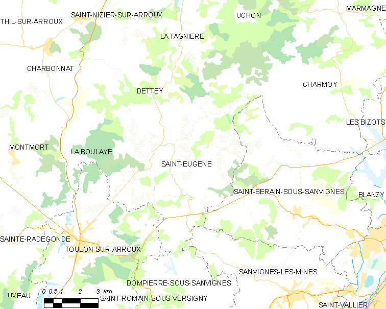 Map of French municipality